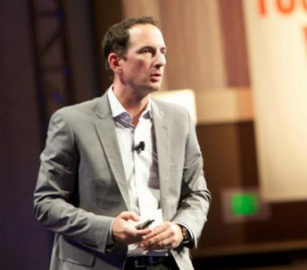 Jordan Banks Speaking